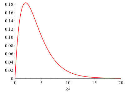 The graph for the chi-square density function with 4 degrees of freedom